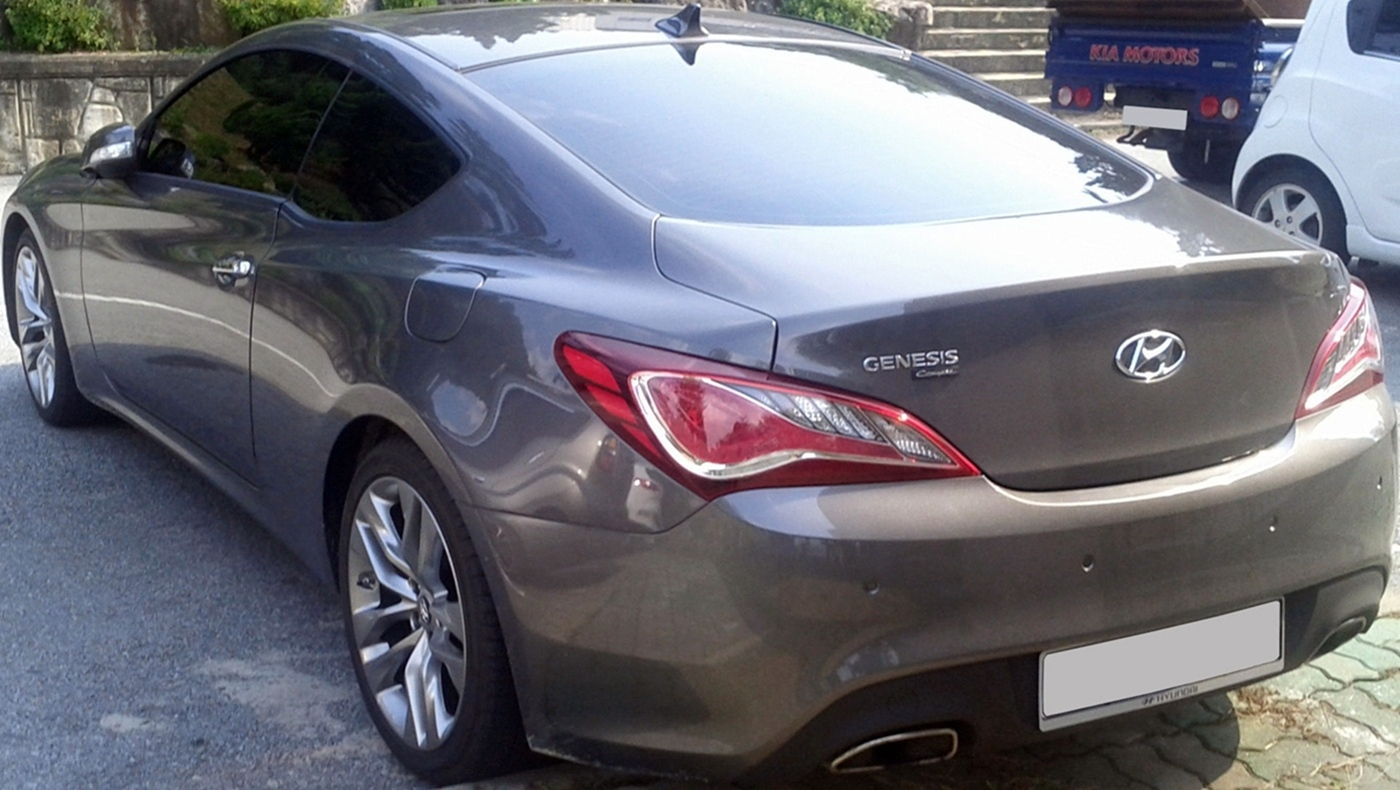 Hyundai Genesis Coupe